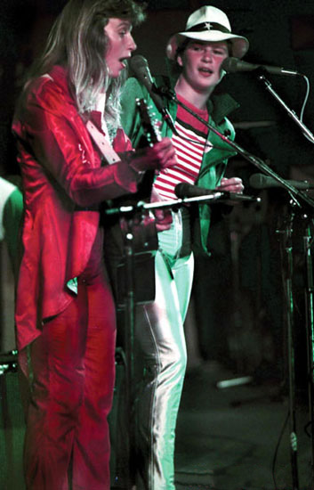 Topp Twins on Redhat (1981)